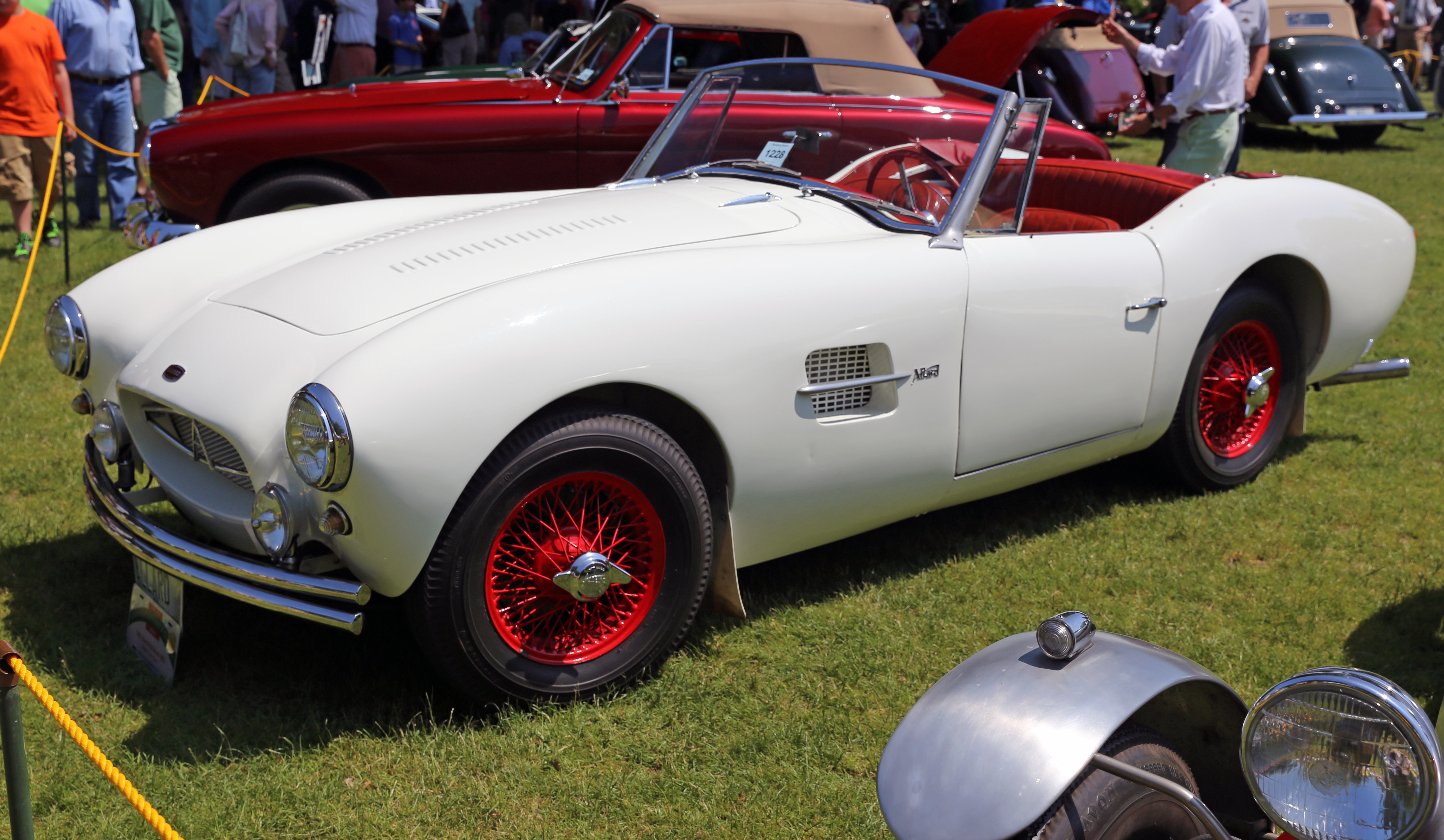 1959 Allard Palm Beach Mark II at the 2013 Greenwich Concours d'Elegance.